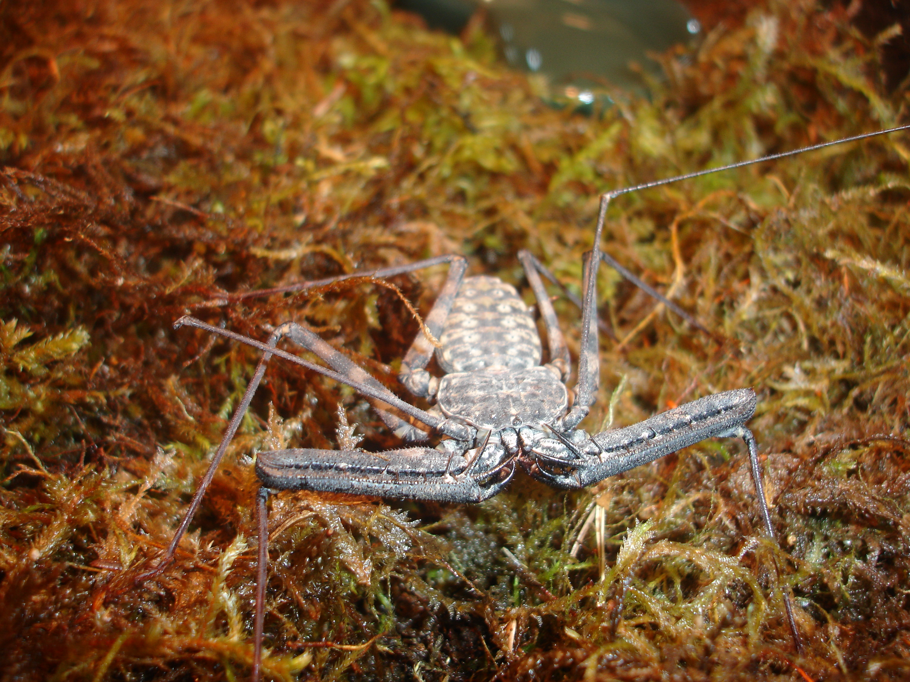 This is the greatest pet i've ever had. Damon variegatus or more commonly a giant African cave spider.